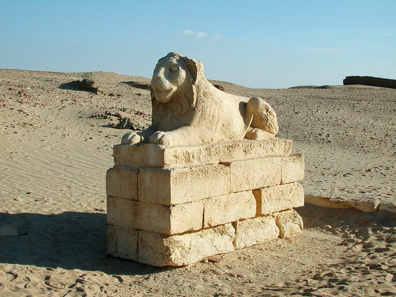 A statue found in Tebtynis